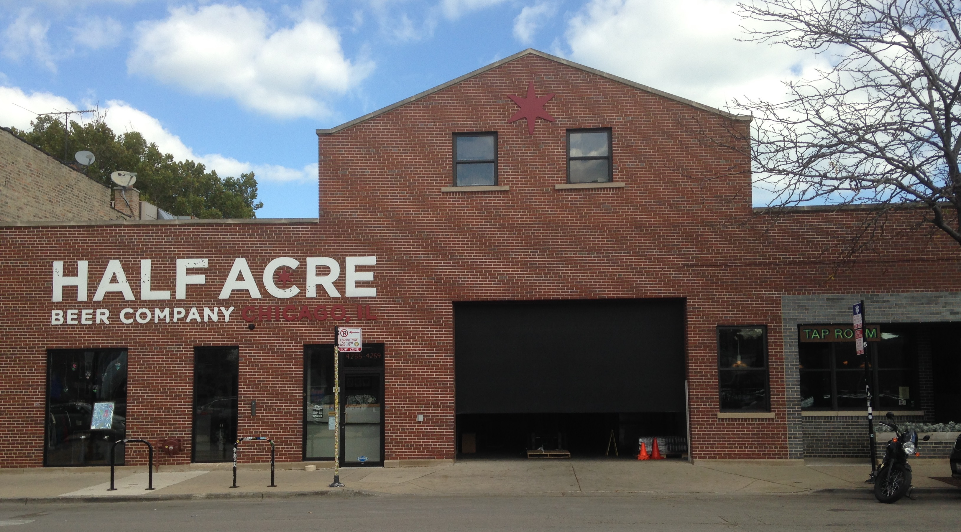 The Half Acre brewery and tap room at 4257 N. Lincoln Ave. in Chicago, Illinois.